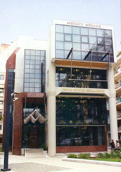 View from outside, image from the Thessaloniki History Centre, Thessaloniki, Central Macedonia, Greece